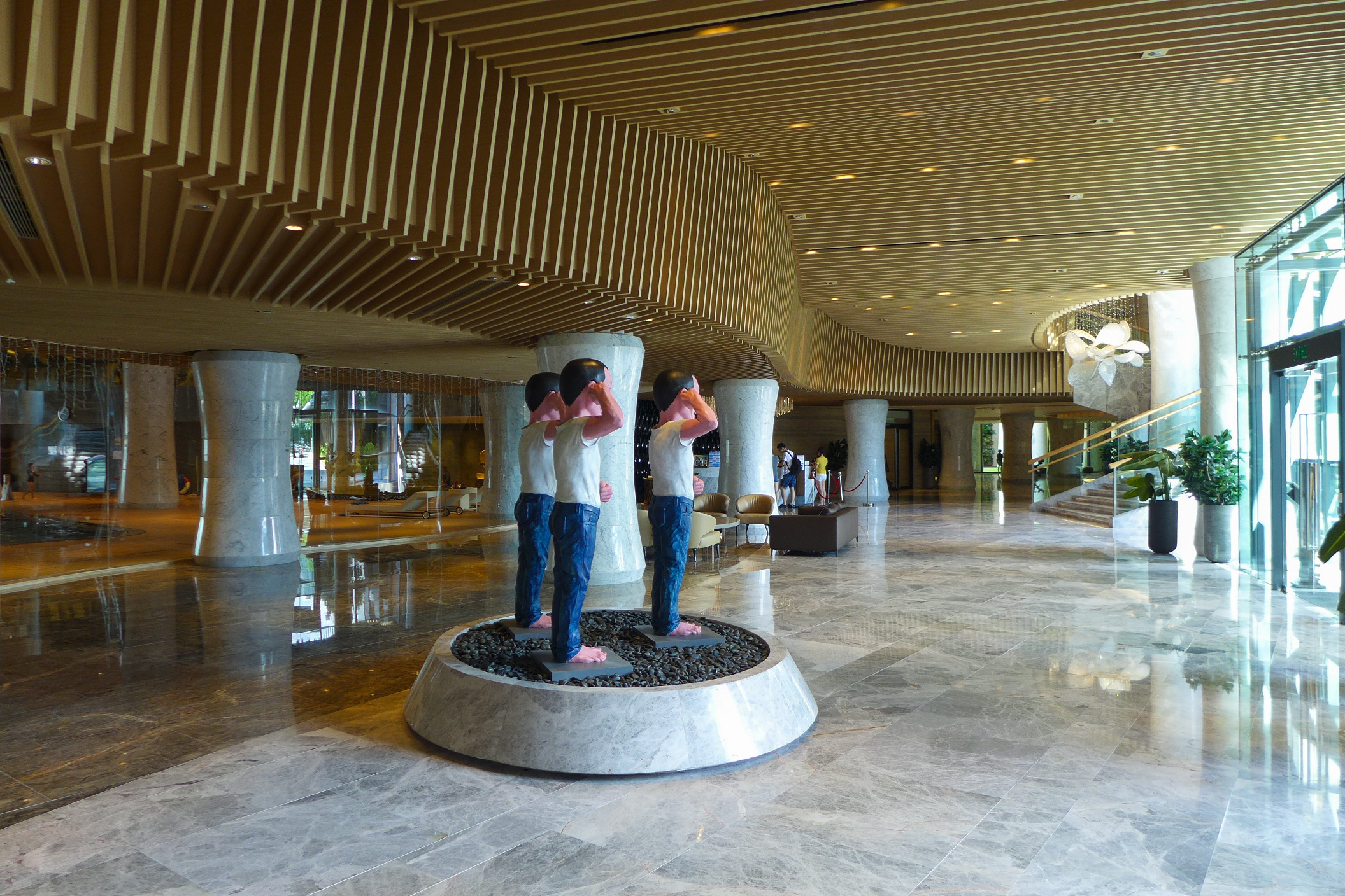 Double Club Lobby